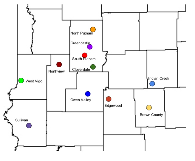 WIC In-Depth 2019